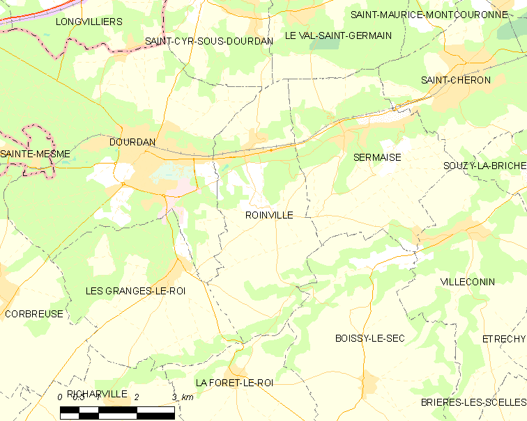 Map of French municipality Roinville